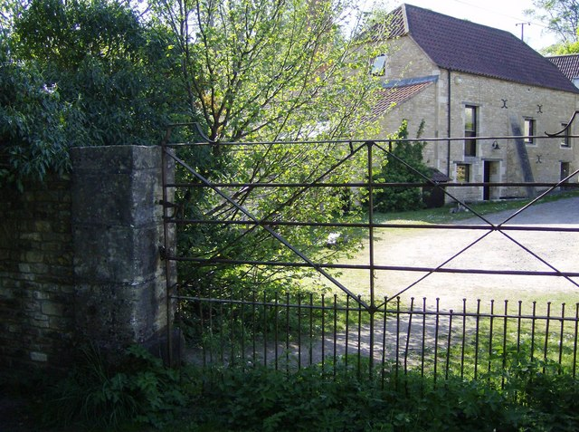 Gate at Nettleton Mill The map shows a track east of Nettleton Mill. Whilst it may have been accessible to vehicles once this gate is firmly shut and has been for many years. The track is accessible on foot through another gate to the side. Nettleton Mill behind.